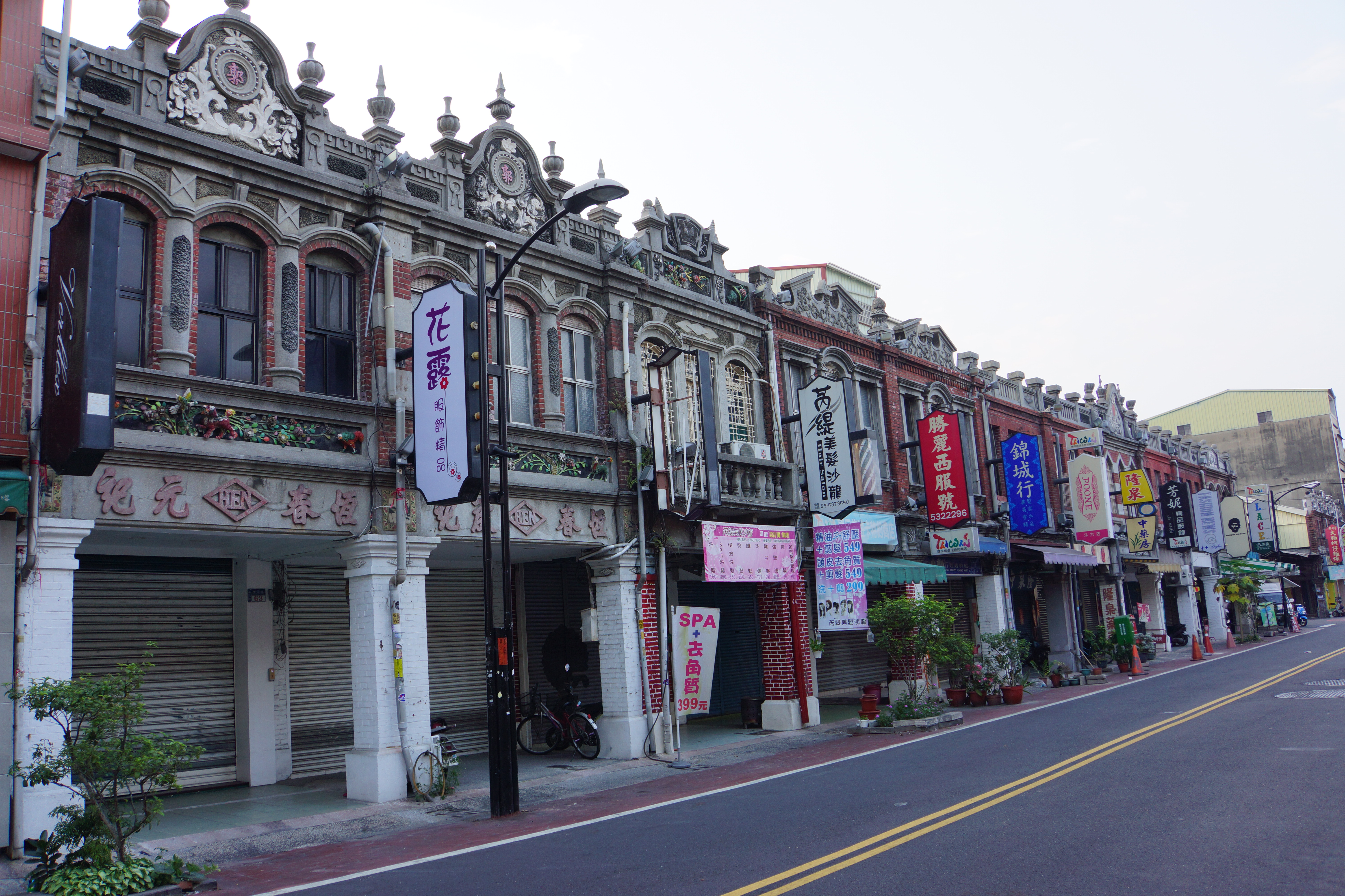 斗六太平老街 Douliu Taiping Old Street